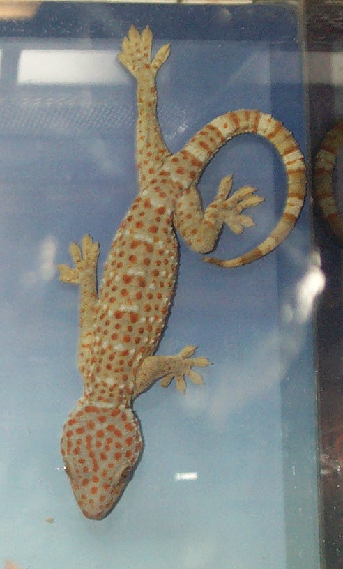 An adult specimen of gecko Gekko gecko.